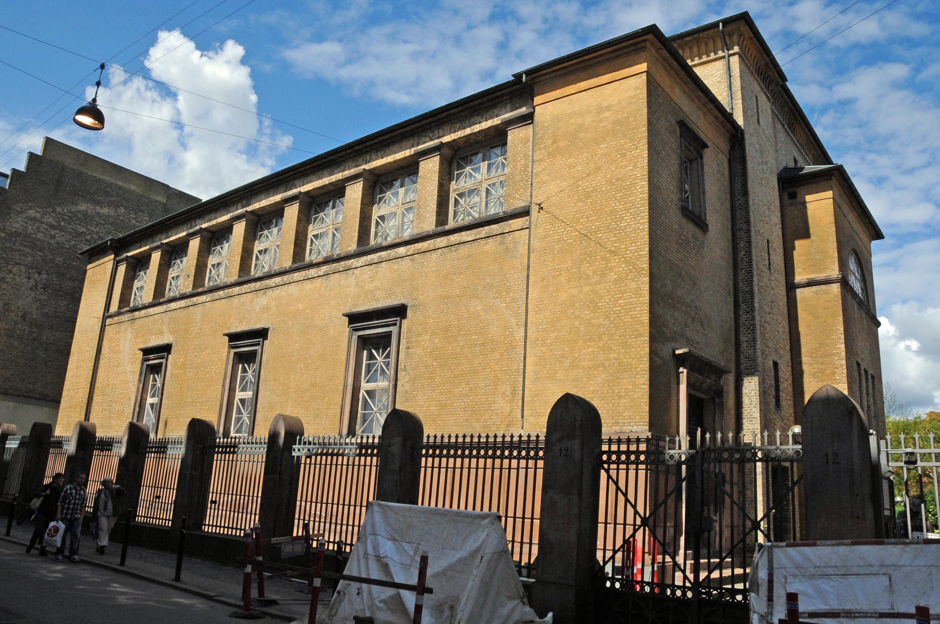 1833 SYNAGOGUE AND ONE OF THE FEW TO SURVIVE IN EUROPE; DURING WORLD WAR II THE TORAH SCROLLS OF THE SYNAGOGUE WERE HIDDEN AT THE TRINITATIS CHURCH AND WERE RETURNED TO THE SYNAGOGUE AFTER THE WAR.